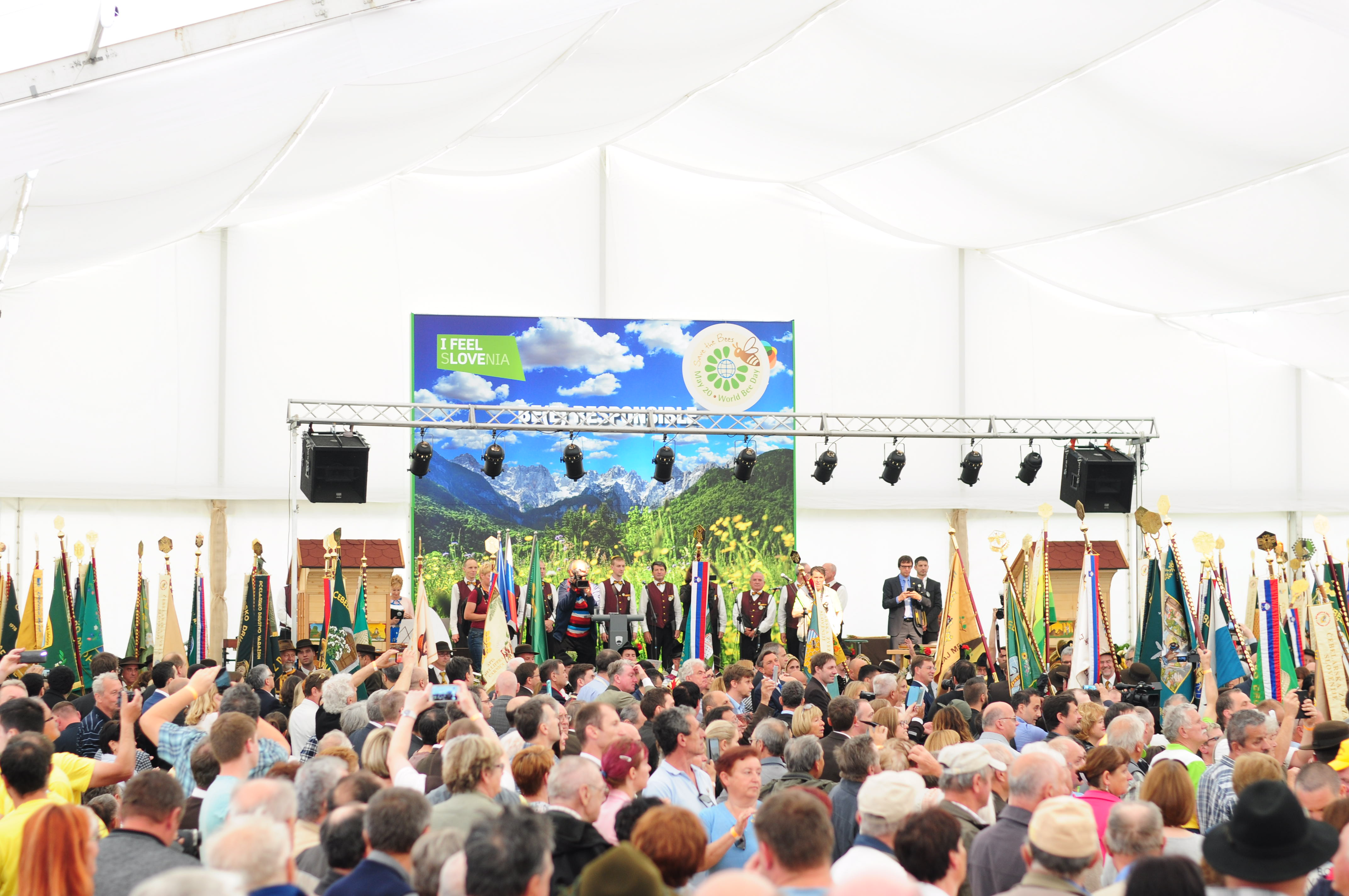 Be(e) responsive - first celebration of World Bee Day in Breznica, Slovenia